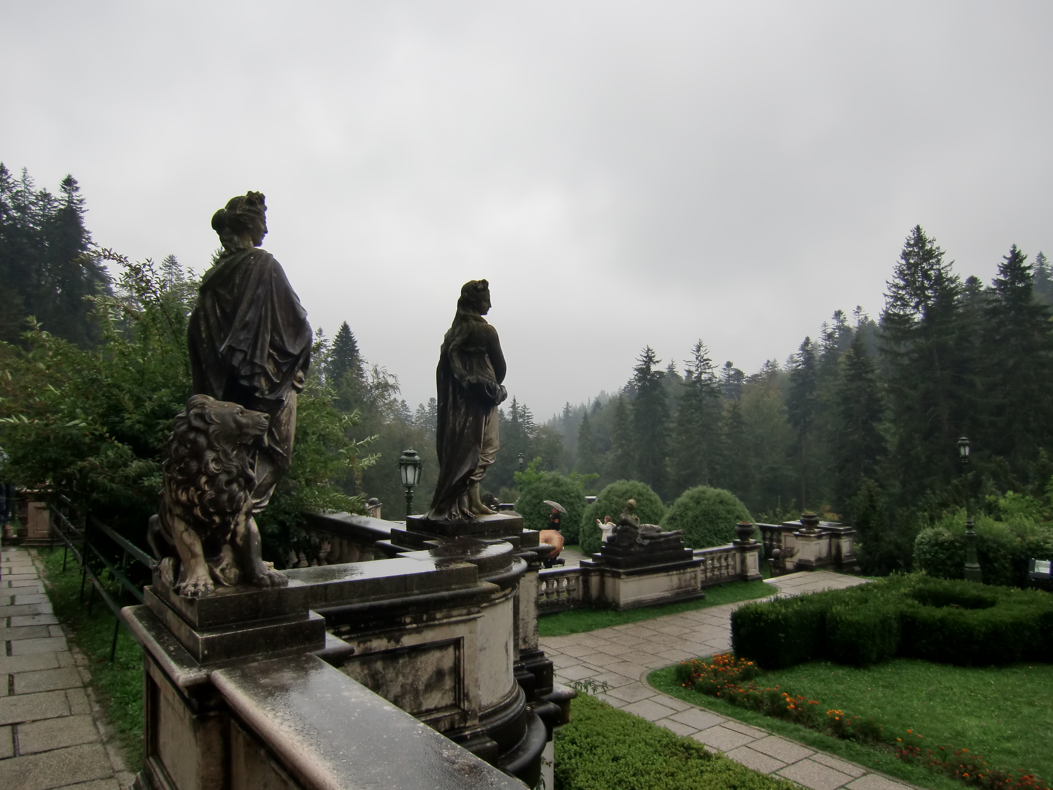 Peles Castle in Sinaia, Romania (September 2010) 01